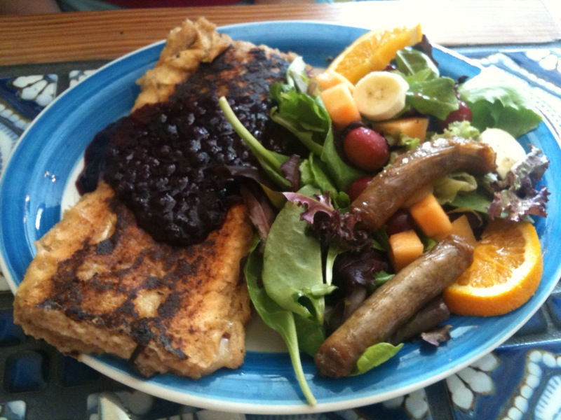 Pain perdu at the Blue Plate Cafe, Lower Garden District, New Orleans. The menu description of this decadent creation: French toast stuffed with brie and pecans, topped with warm blueberry sauce with salad and sausage or bacon. $8.95